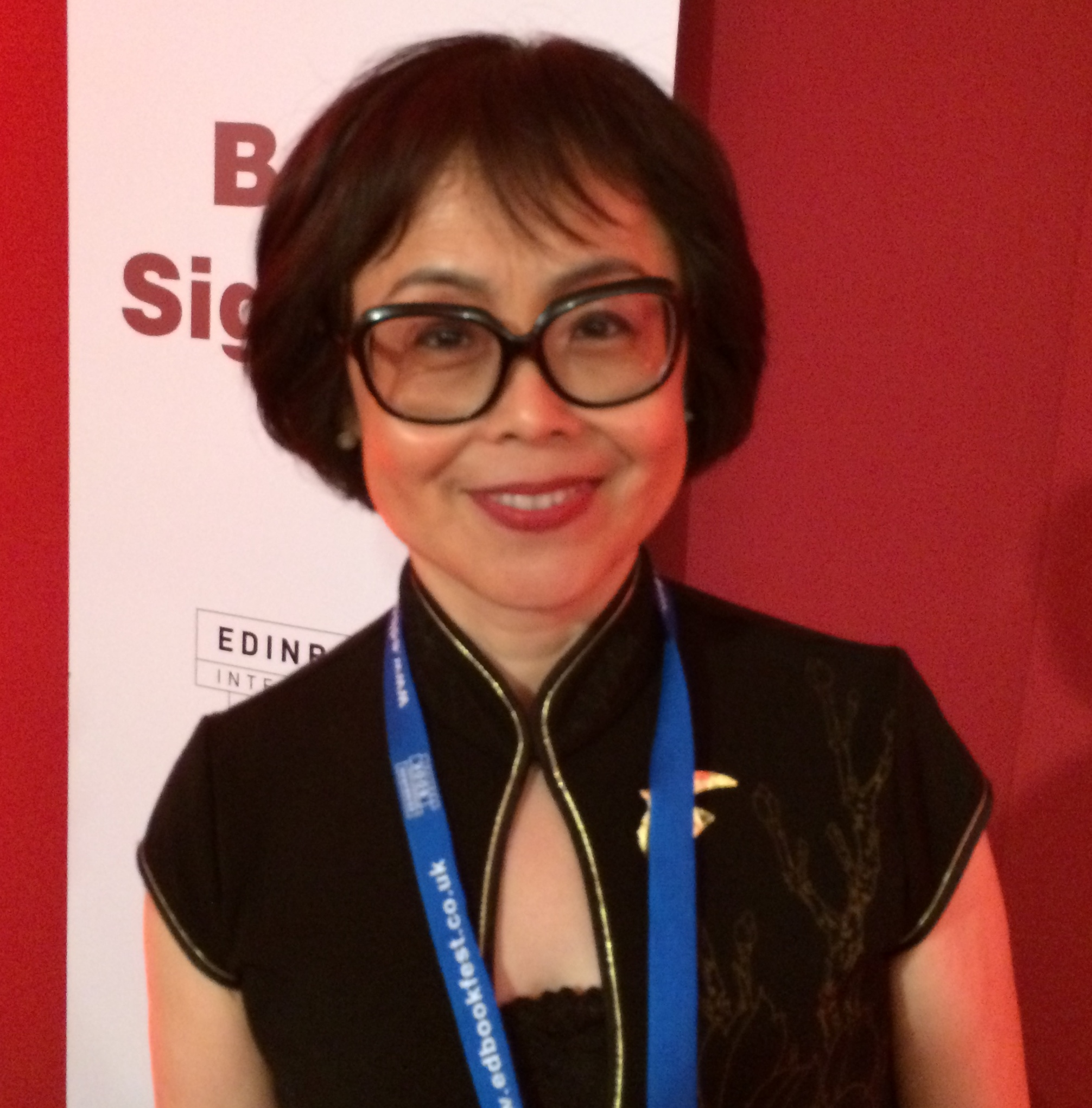 Chinese author Xinran at the Edinburgh International Book Festival 2015